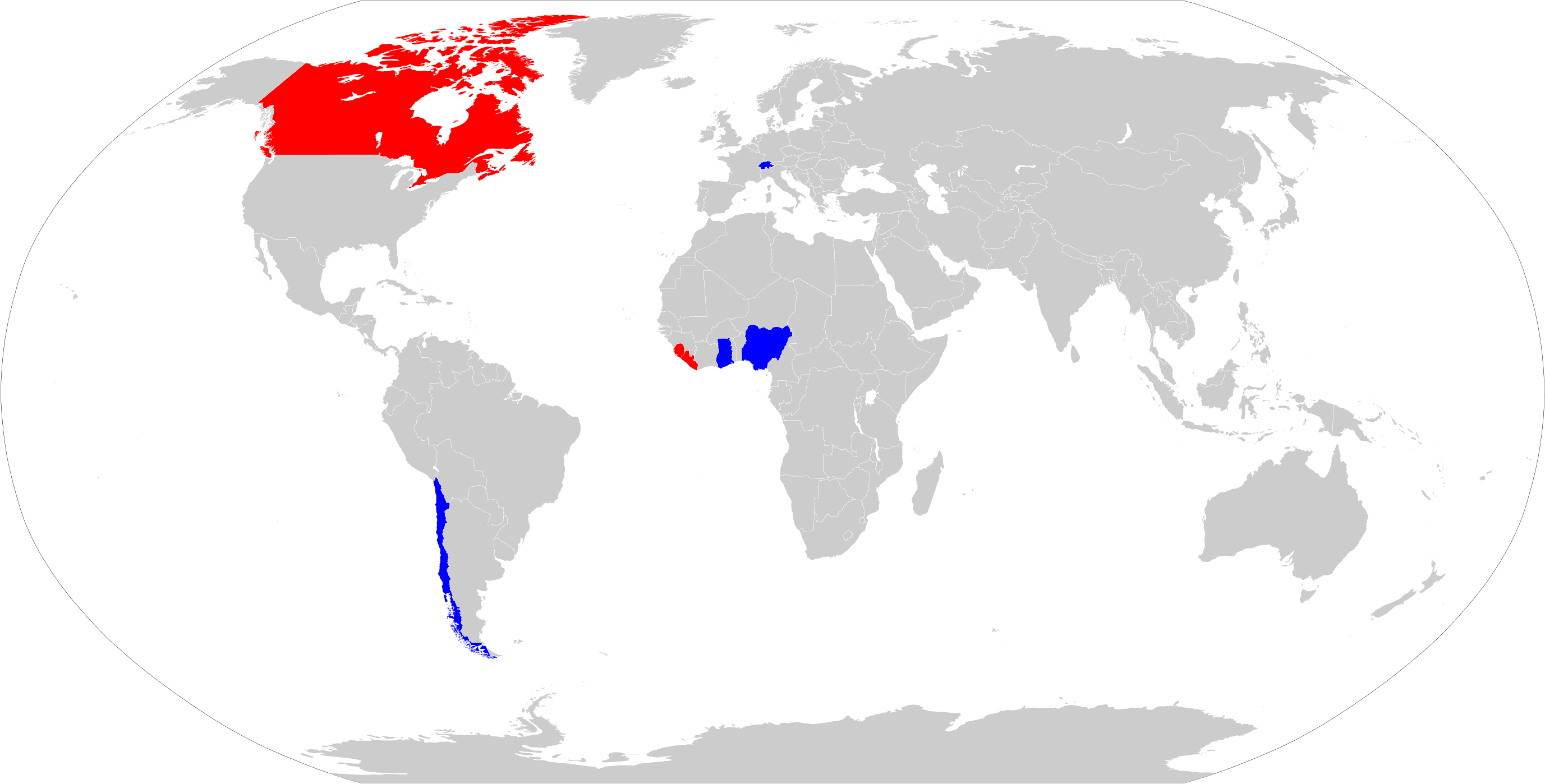 Map of Pirahna 1 operators in blue with former operators in red